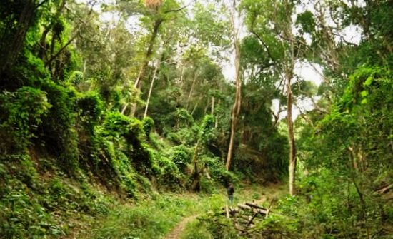 De Hel Nature Area. City of Cape Town. ERMD.